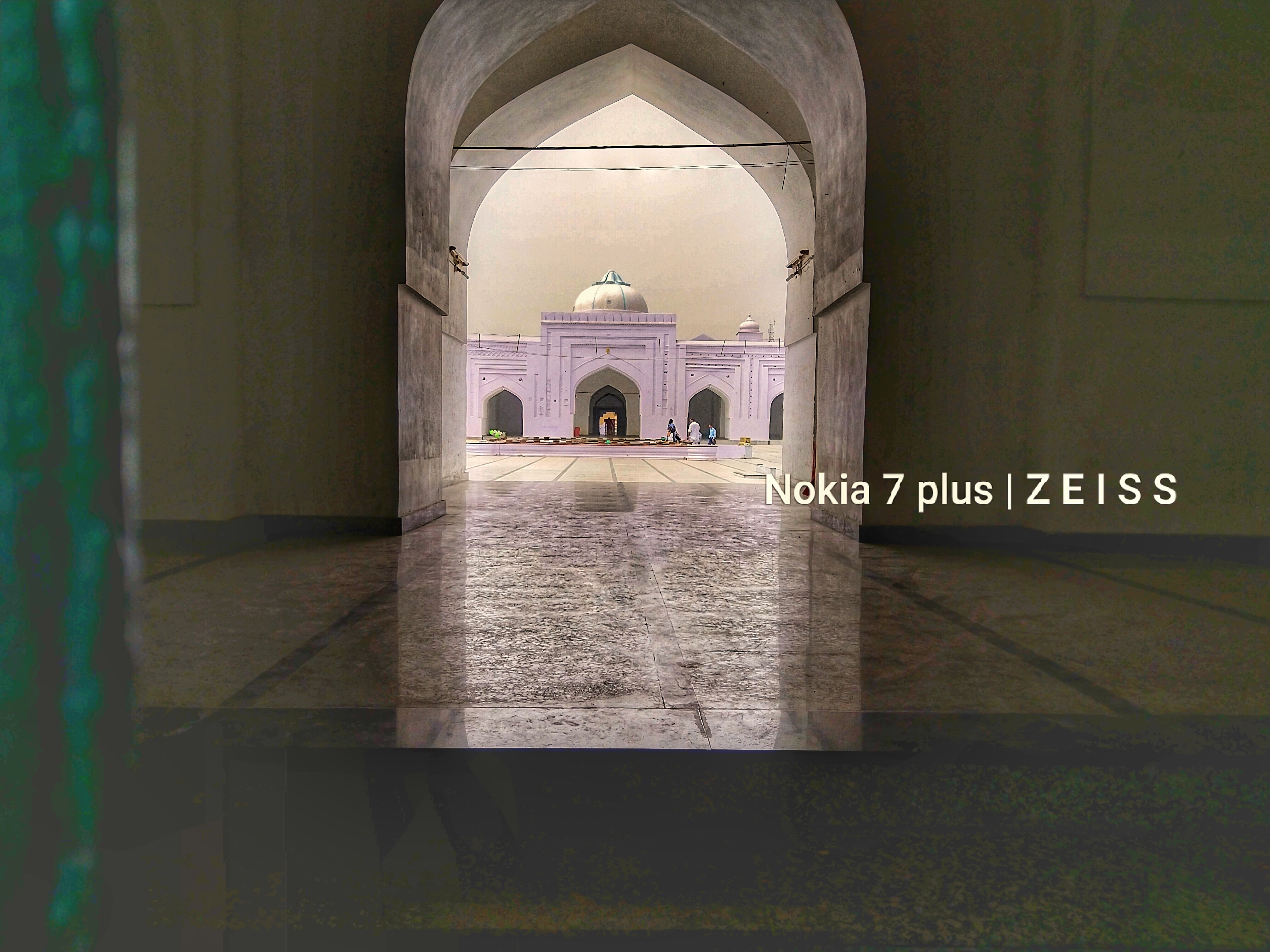 This is one of the oldest and largest mosques of India. Situated in Badaun district Uttar Pradesh. It was the largest mosque of India before the development of Jama Masjid, Delhi.